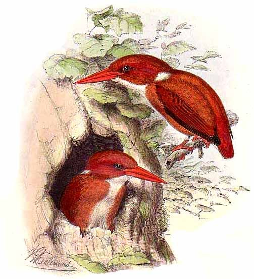 Madagascar Pygmy-kingfisher (Ceyx madagascariensis)